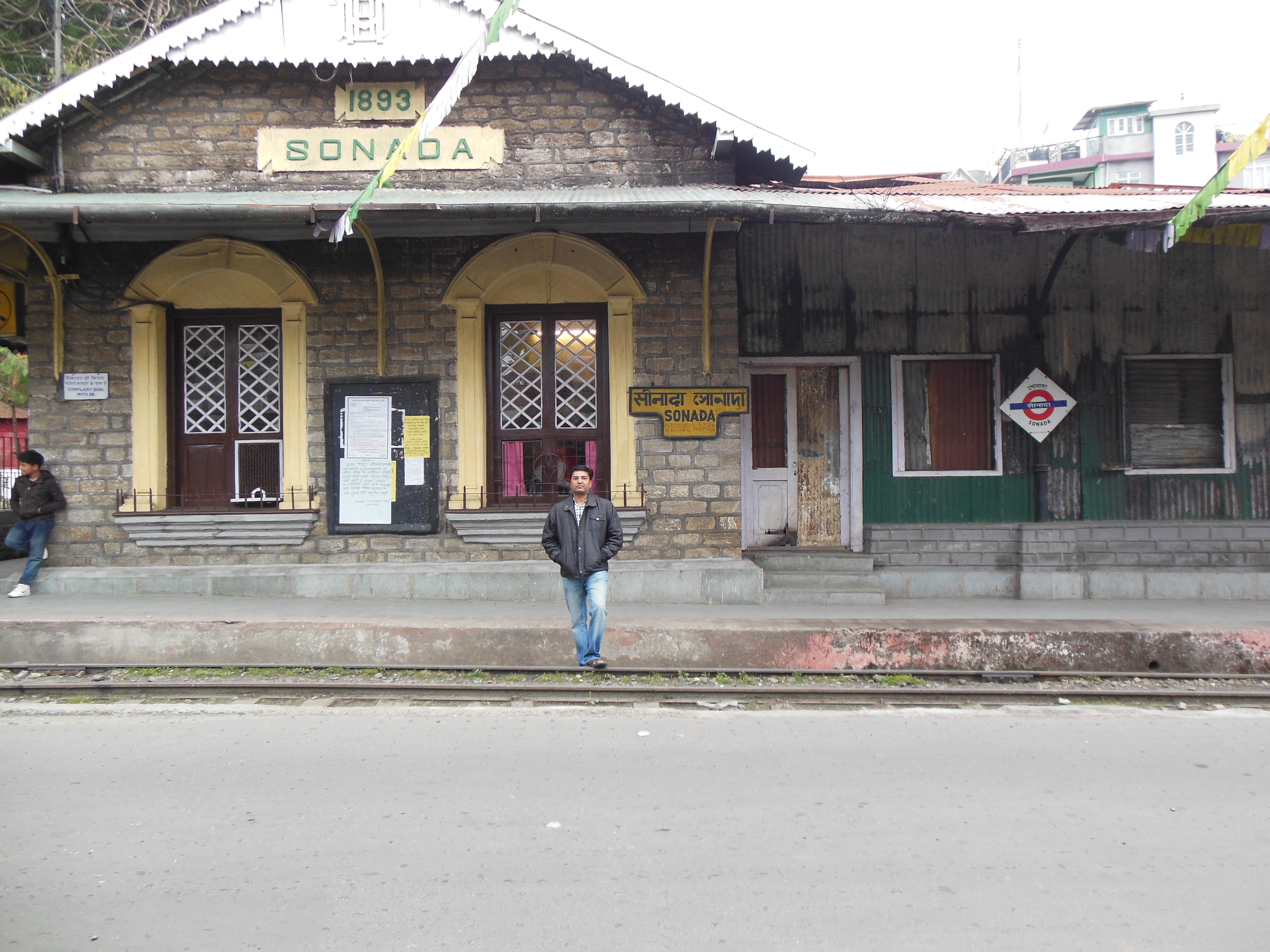 View of Sonada railway station